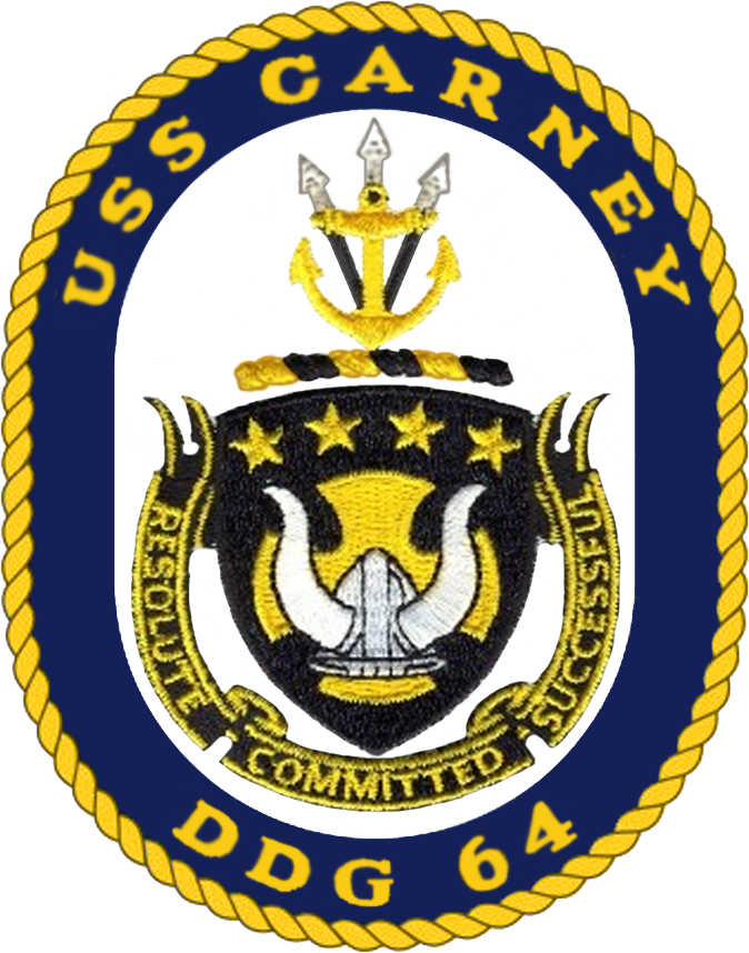 Emblem of the USS Carney (DDG-64)